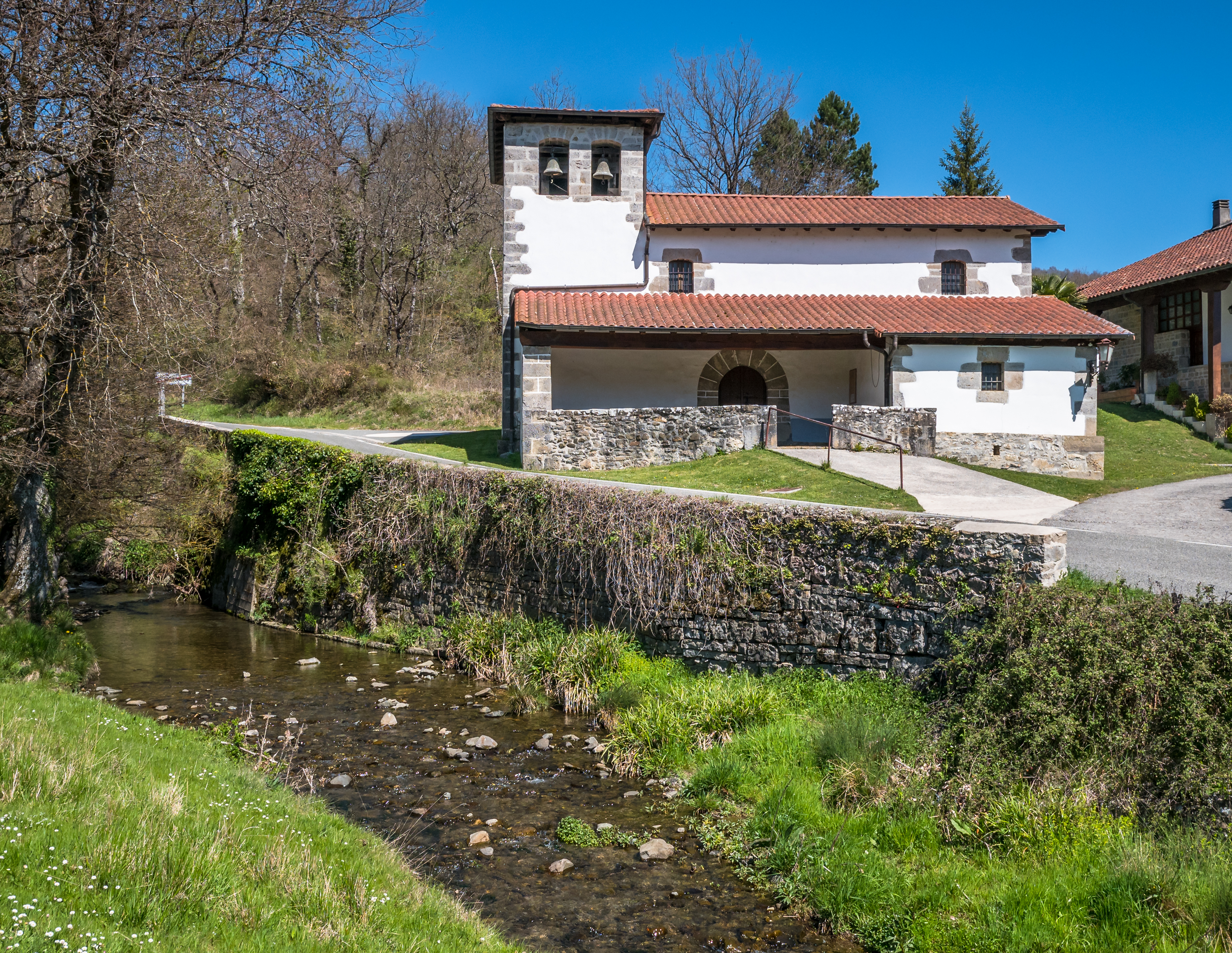 Basaburúa Mayor municipality, church in Jauntsarats. Navarre, Spain